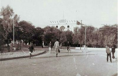 Moshir al-Malek pre Revolution